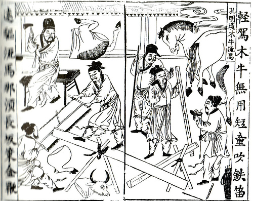 A Qing Dynasty illustration of inventions during the Battle of Wuzhang Plains fought in 234.